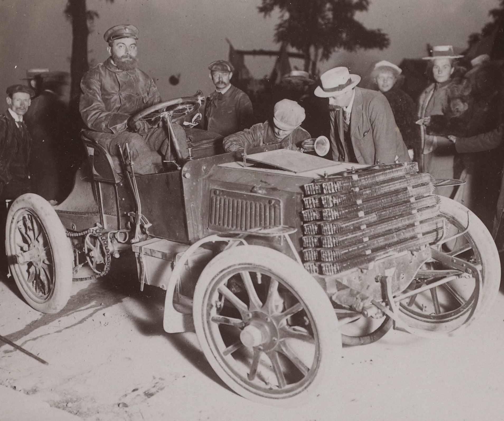 [Collection Jules Beau. Photographie sportive] : T. 14. Année 1901 / Jules Beau : F. 4. [Paris - Berlin, Grande course annuelle de l' Automobile Club de France, Course de vitesse, 27 -29 juin 1901]